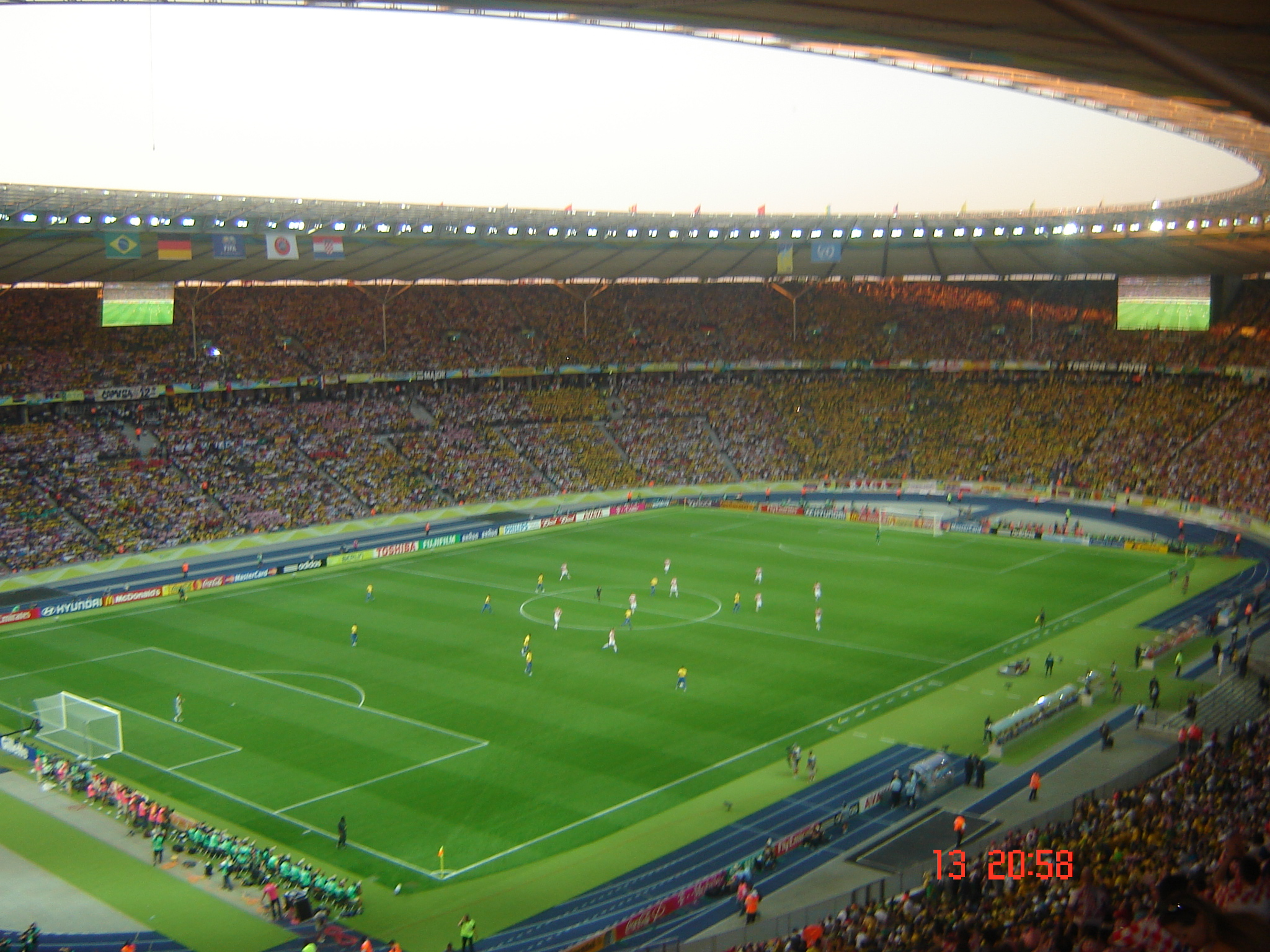 Brazil - Croatia, 2006 FIFA World Cup